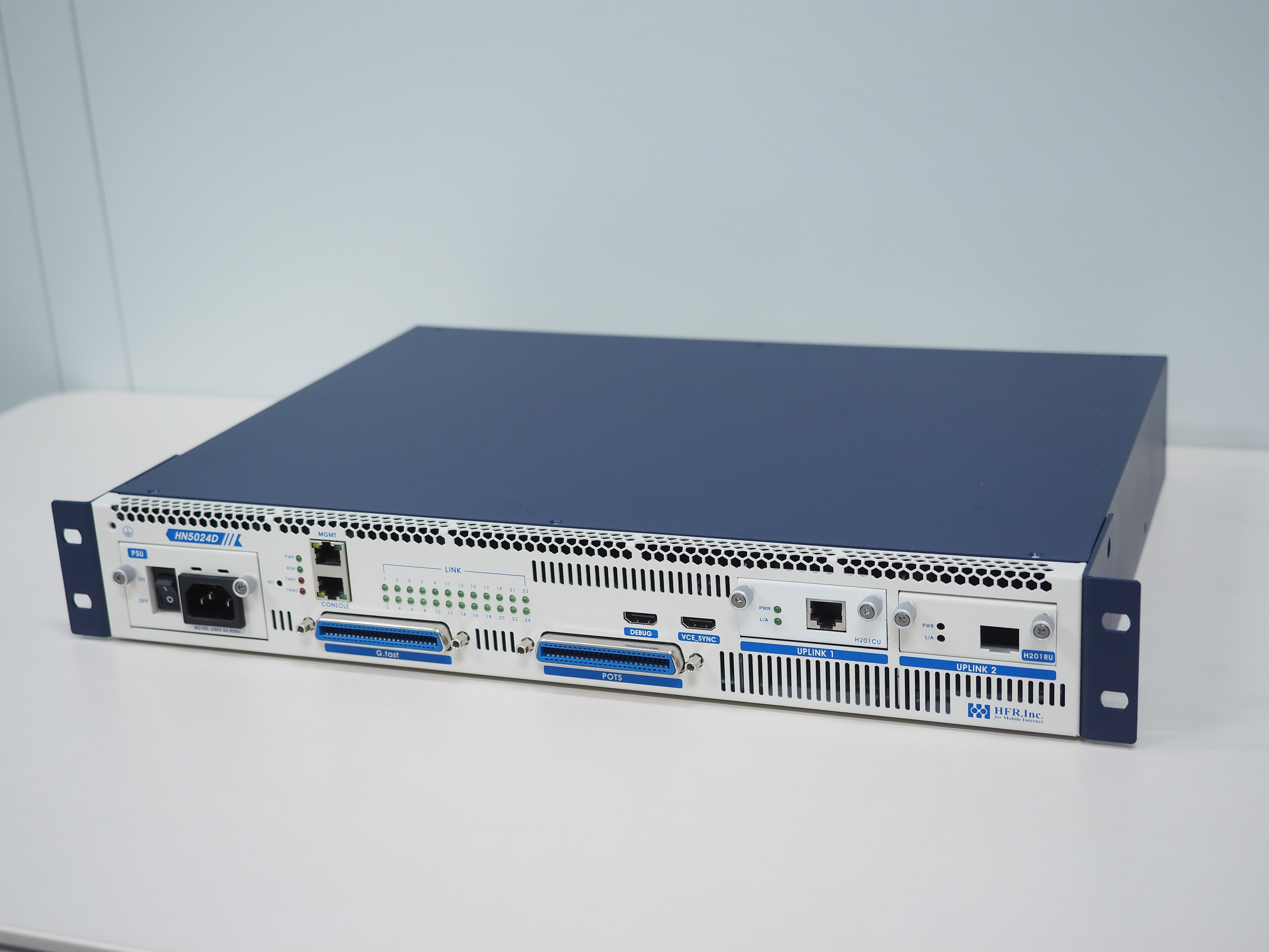 Sckipio 24port DPU